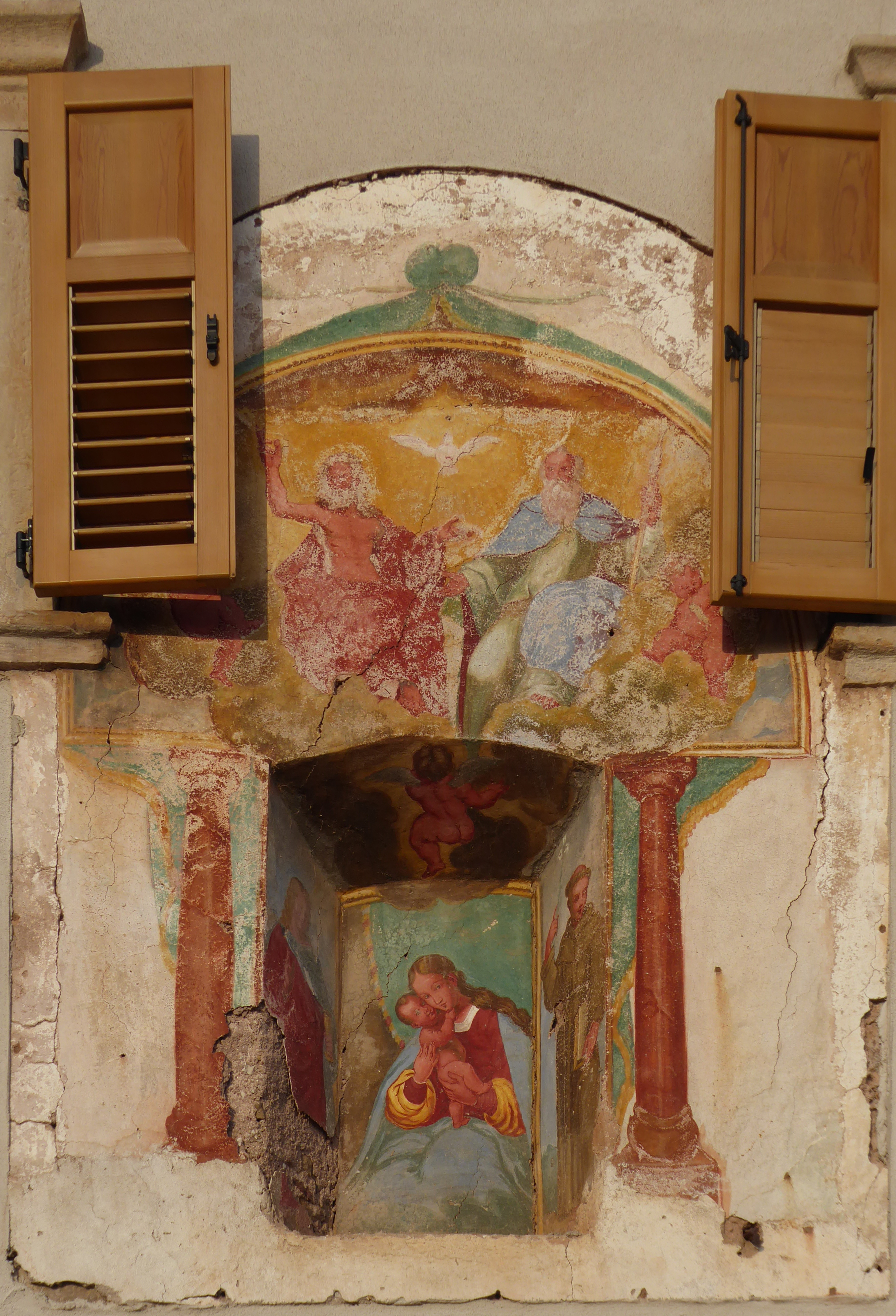 The village of Valternigo in the municipality of Giovo (Trentino, Italy) - Fresco on a house